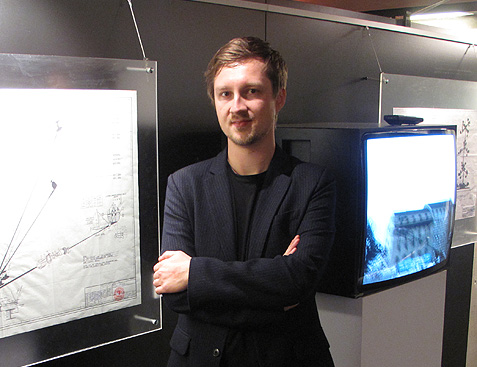 Till Nowak standing in font of The Experience of Fliehkraft art installation.